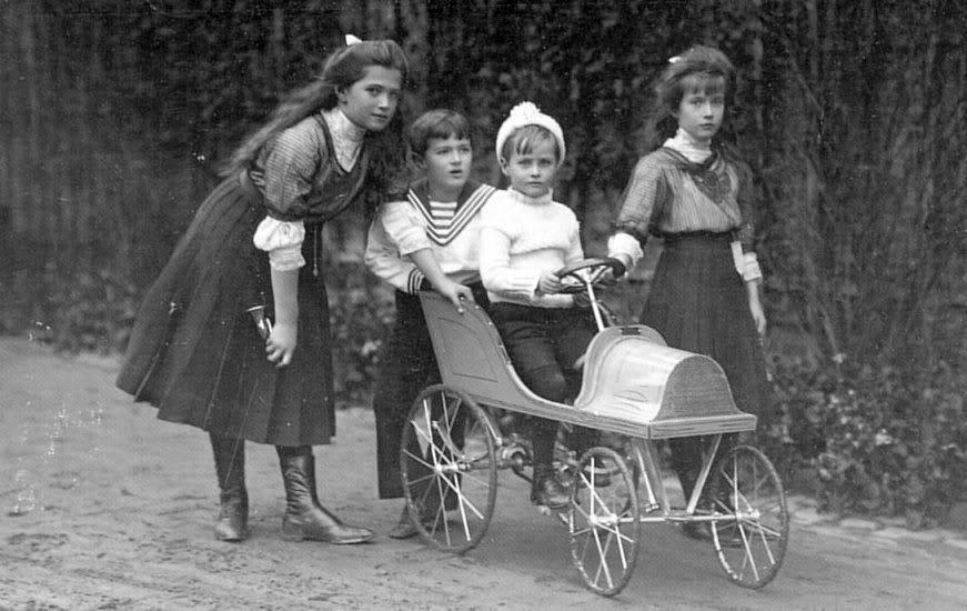 Grand Duchess Maria Nikolaevna of Russia, Alexei Nikolaevich, Tsarevich of Russia, Georg Donatus, Hereditary Grand Duke of Hesse and Grand Duchess Anastasia Nikolaevna of Russia with a toy car at Wolfsgarten in Hesse.